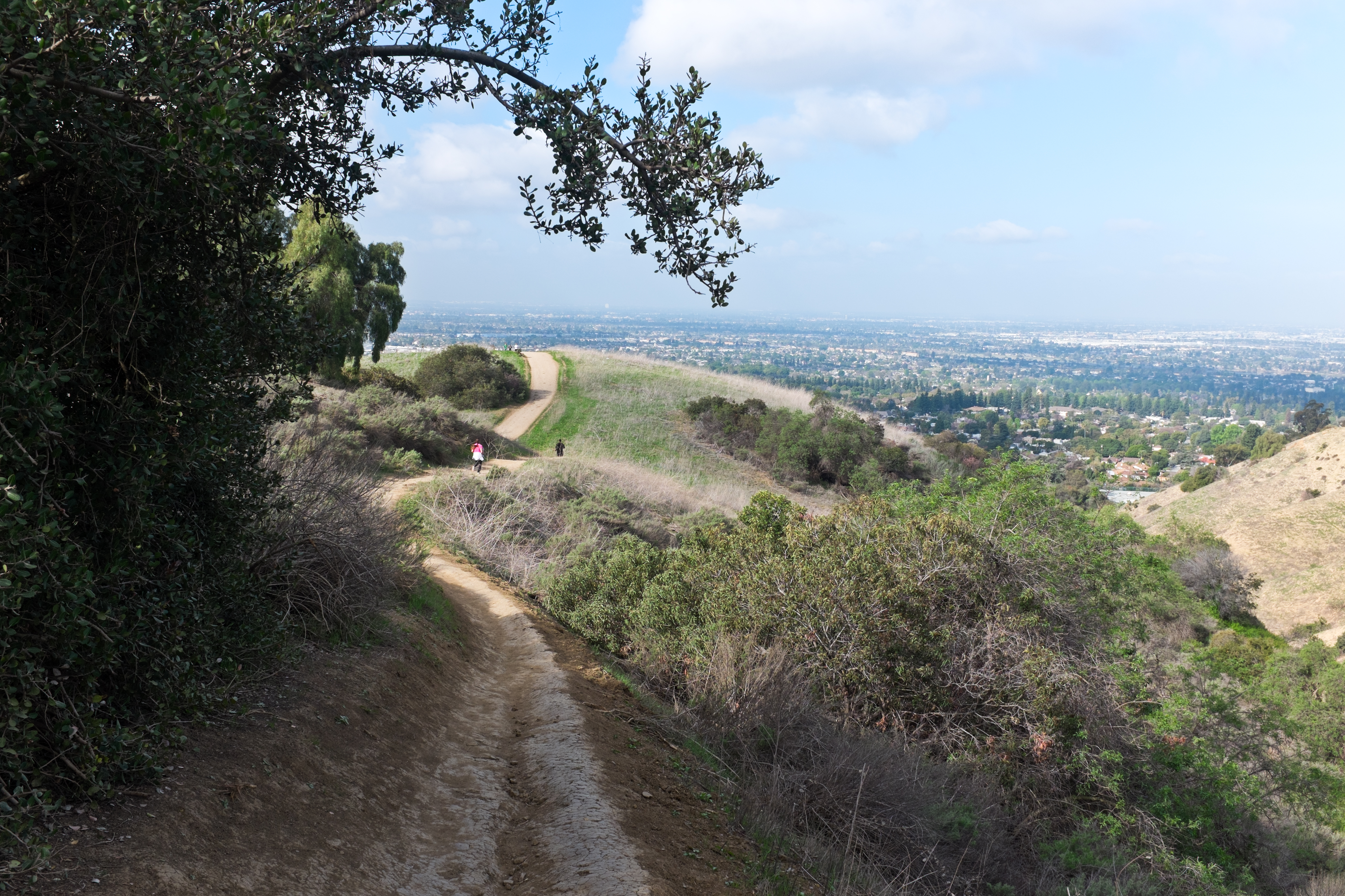 The Mariposa Trail, with Peppergrass Trail in background, in Hellman Wilderness Park. In the Puente Hills near Whittier, eastern Los Angeles County, California.